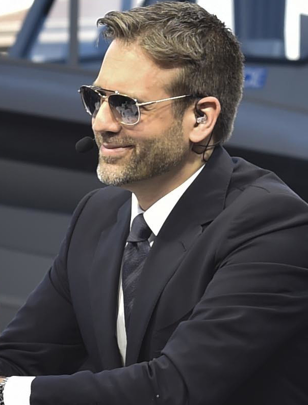 Max Kellerman during a Veteran's Day special of First Take at Fort George G. Meade